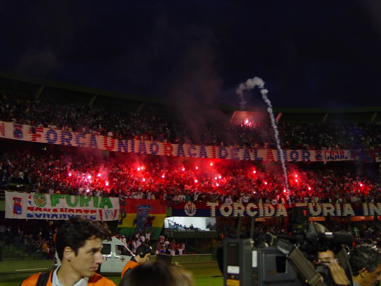 Furia noturna